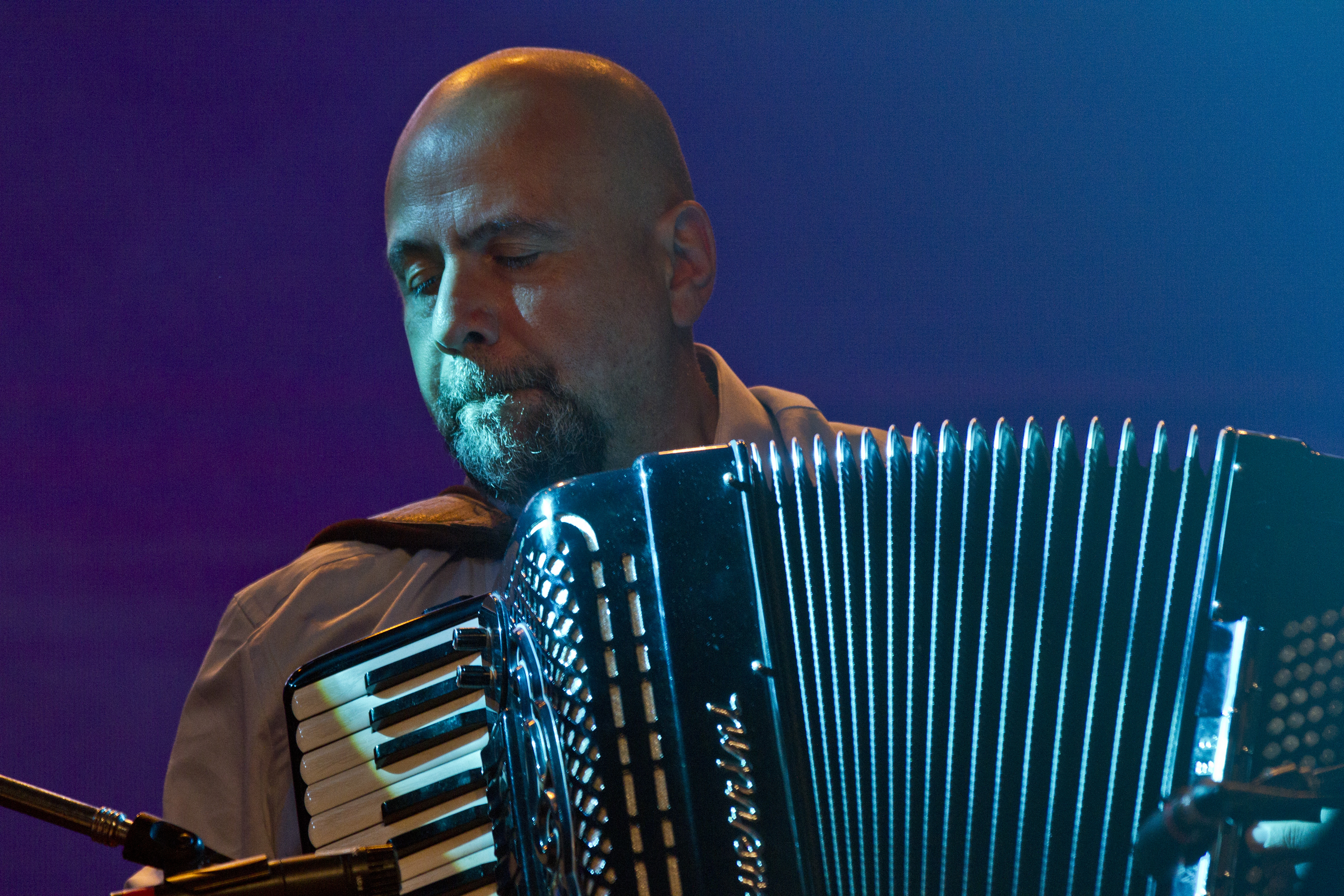 Villa Martelli, 28 de marzo de 2015.- En el marco del Ciclo “Cruce”, que se desarrolla en el encuentro de la Palabra en Tecnópolis, se presentaron Liliana Herrero y Toninho Ferragutti. Los Invitados fueron Fernando Cabrera y Pedro Rossi.Foto: Augusto Starita / Ministerio de Cultura de la Nación.